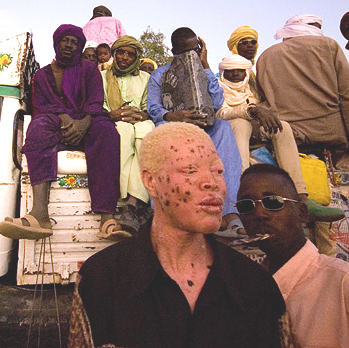 An albino man from Niger.